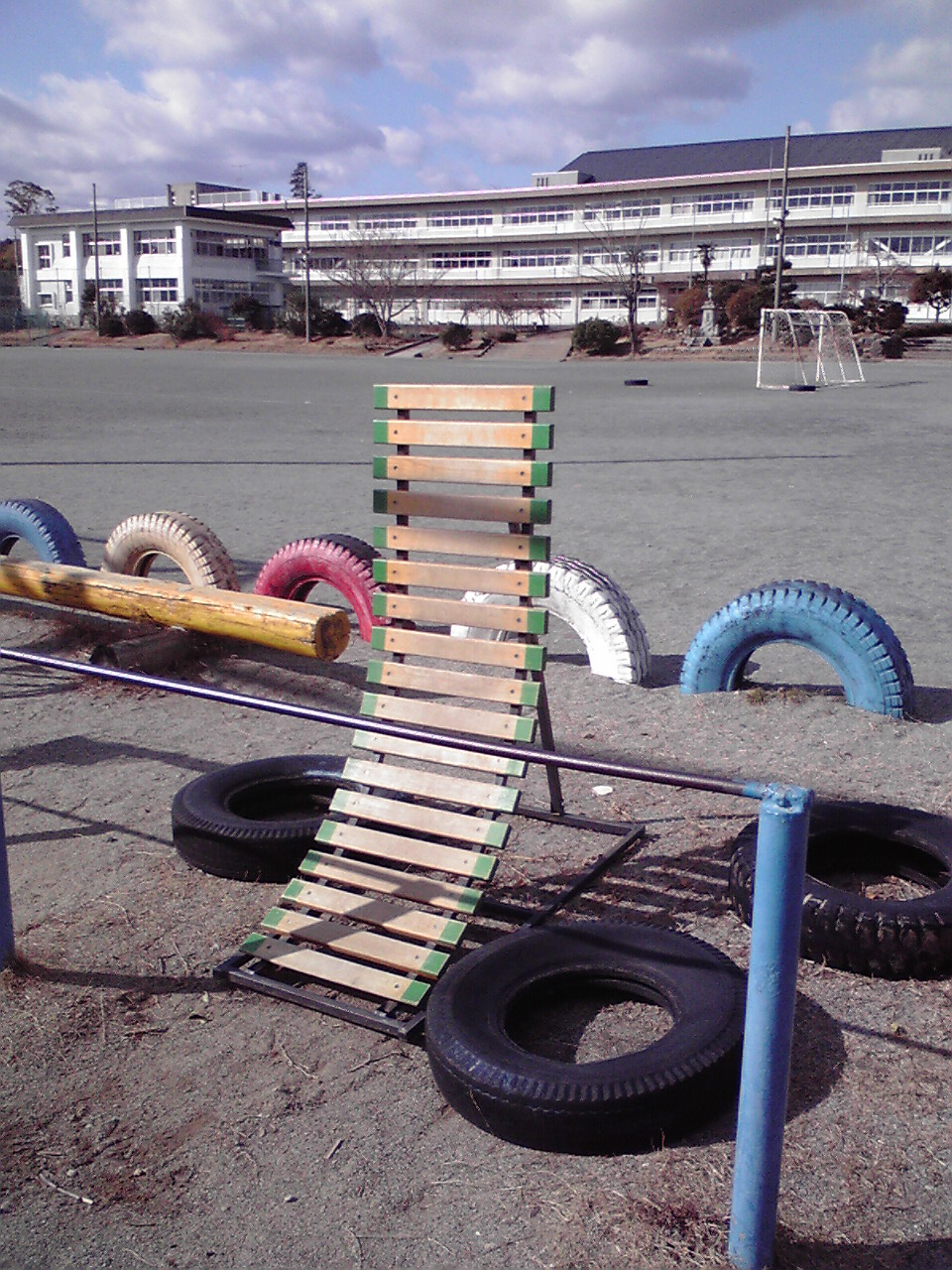 This is a machine for training the back hip circle. This photo was taken at Shima municipal Isobe elementary school, which is located in Shima, Mie, Japan.